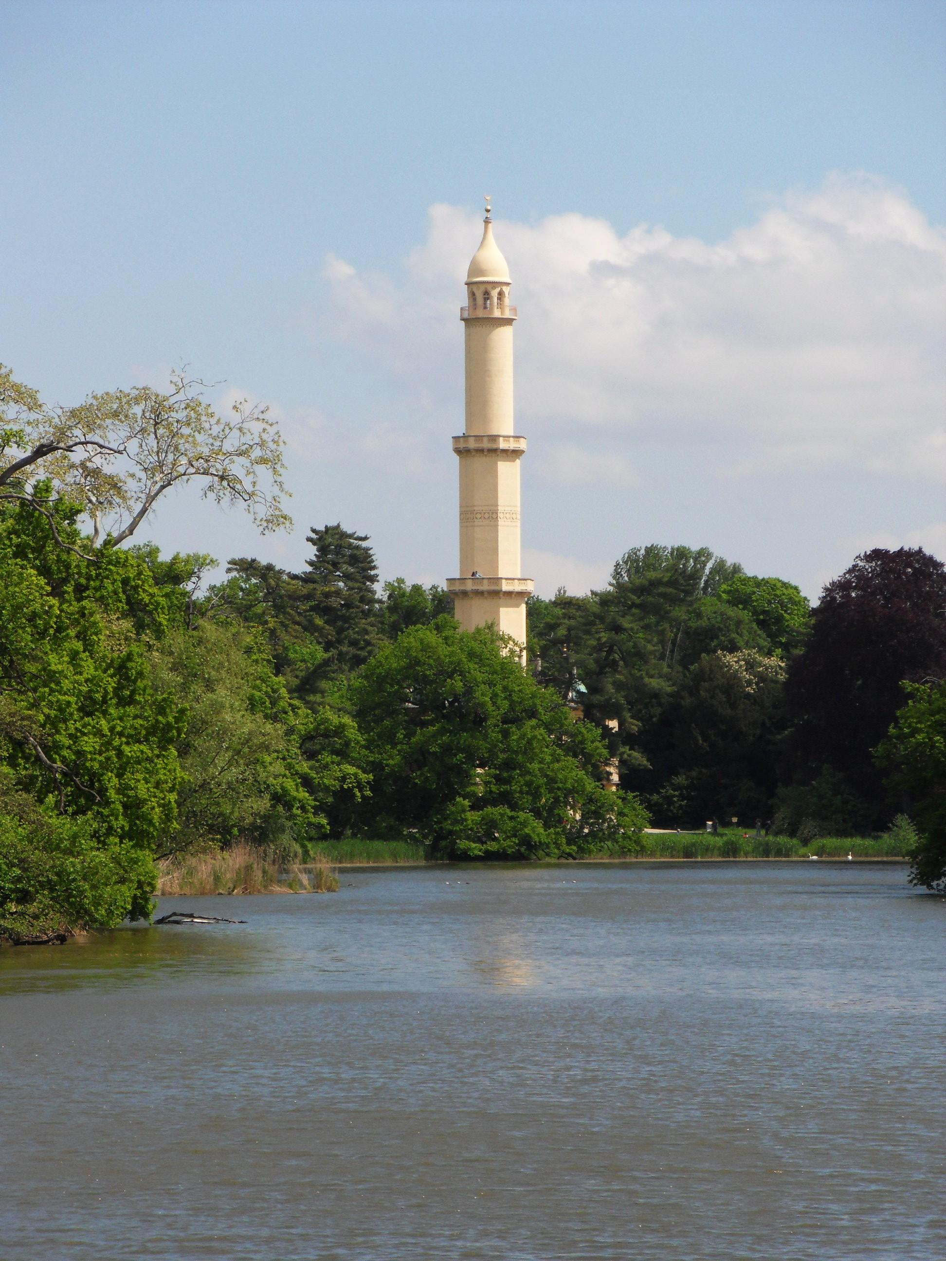 Zámecký rybník and Minaret, Lednice, Břeclav district, Czech Republic